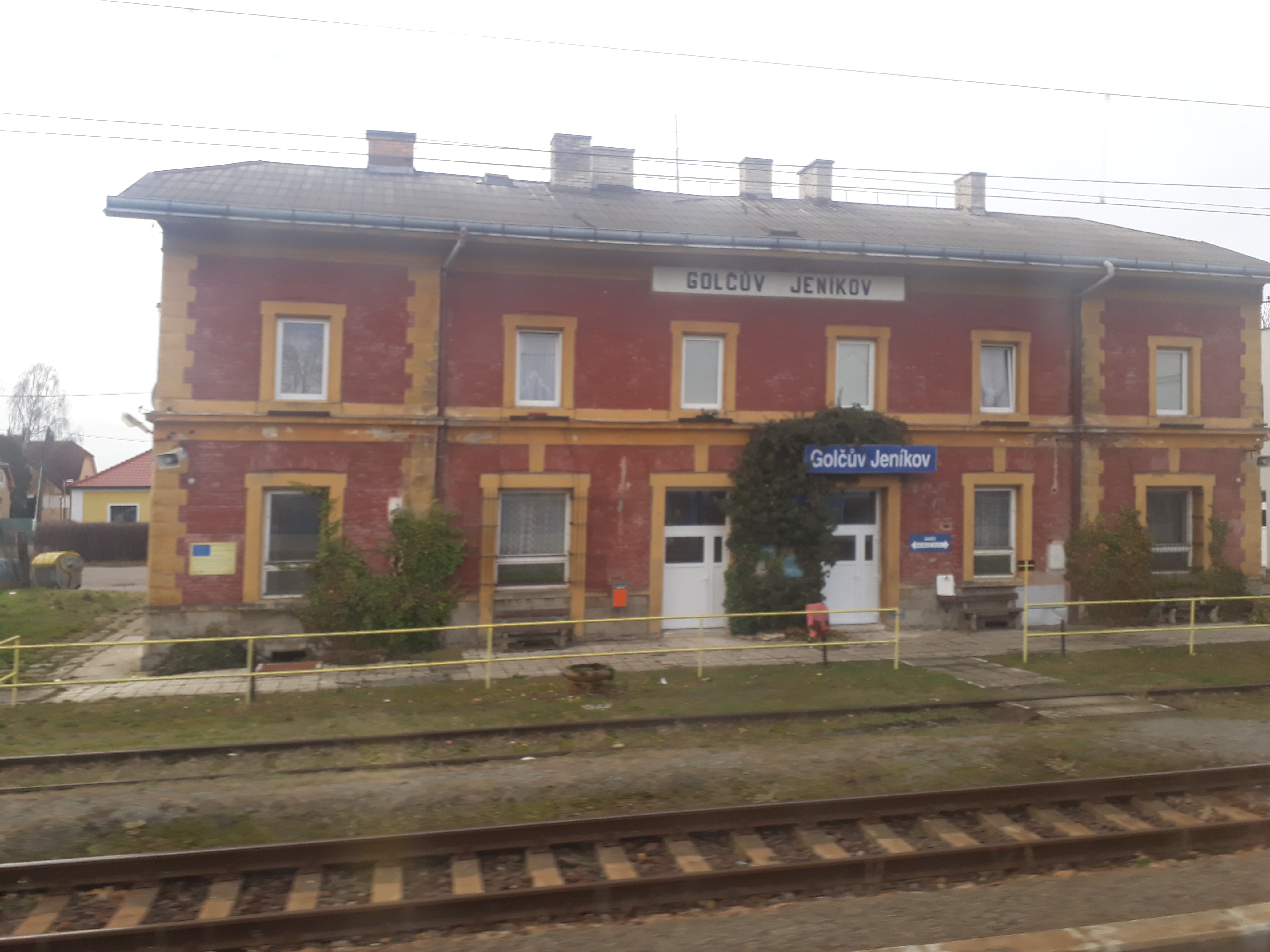 Golčův Jeníkov railway station